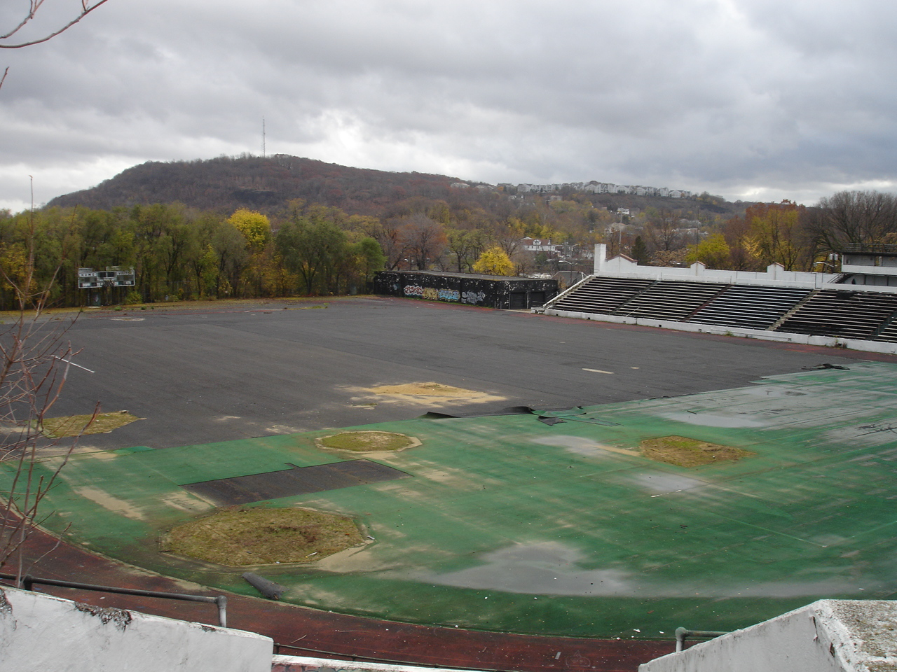 I took this photo myself in the winter of 2009.